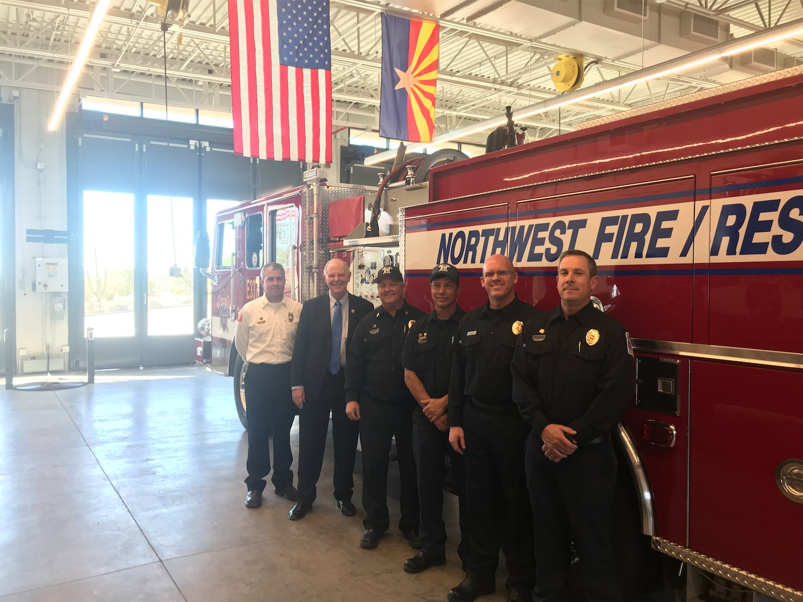 This weekend, I had the opportunity to tour the new facilities at Northwest Fire Station 337. I met with local residents and the brave firefighters who put their lives on the line to protect #AZ01 communities.